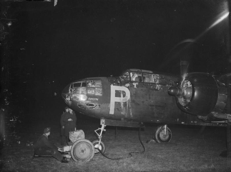 Royal Air Force 1939-1945- Fighter Command 'Evelyn', a No 23 Squadron Havoc 'fighter-bomber', starts up at Ford at the beginning of another night sortie, 28 November 1941.